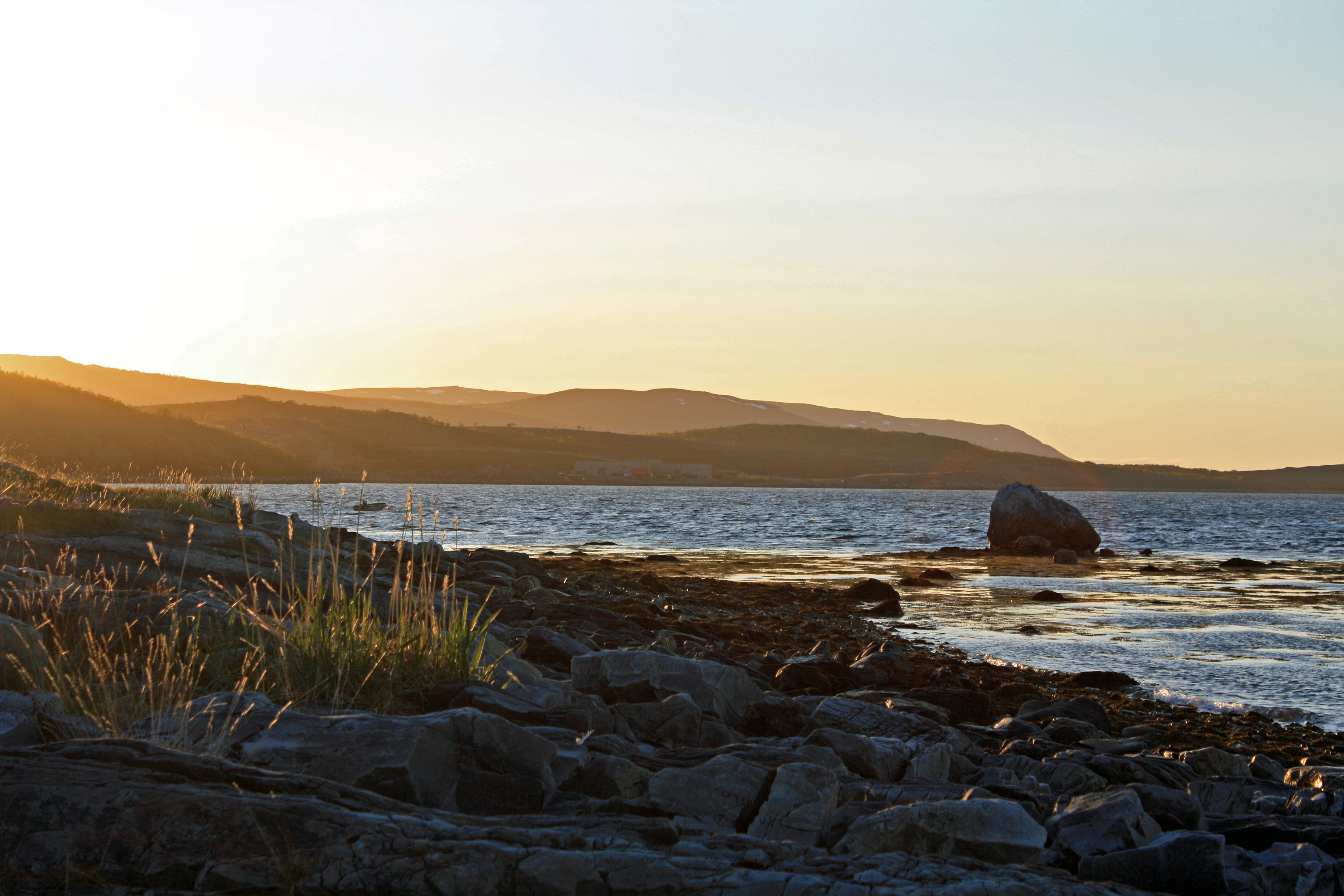 Kaavensteinen, the stone that the healer Johan Kaaven used to place his pacients.